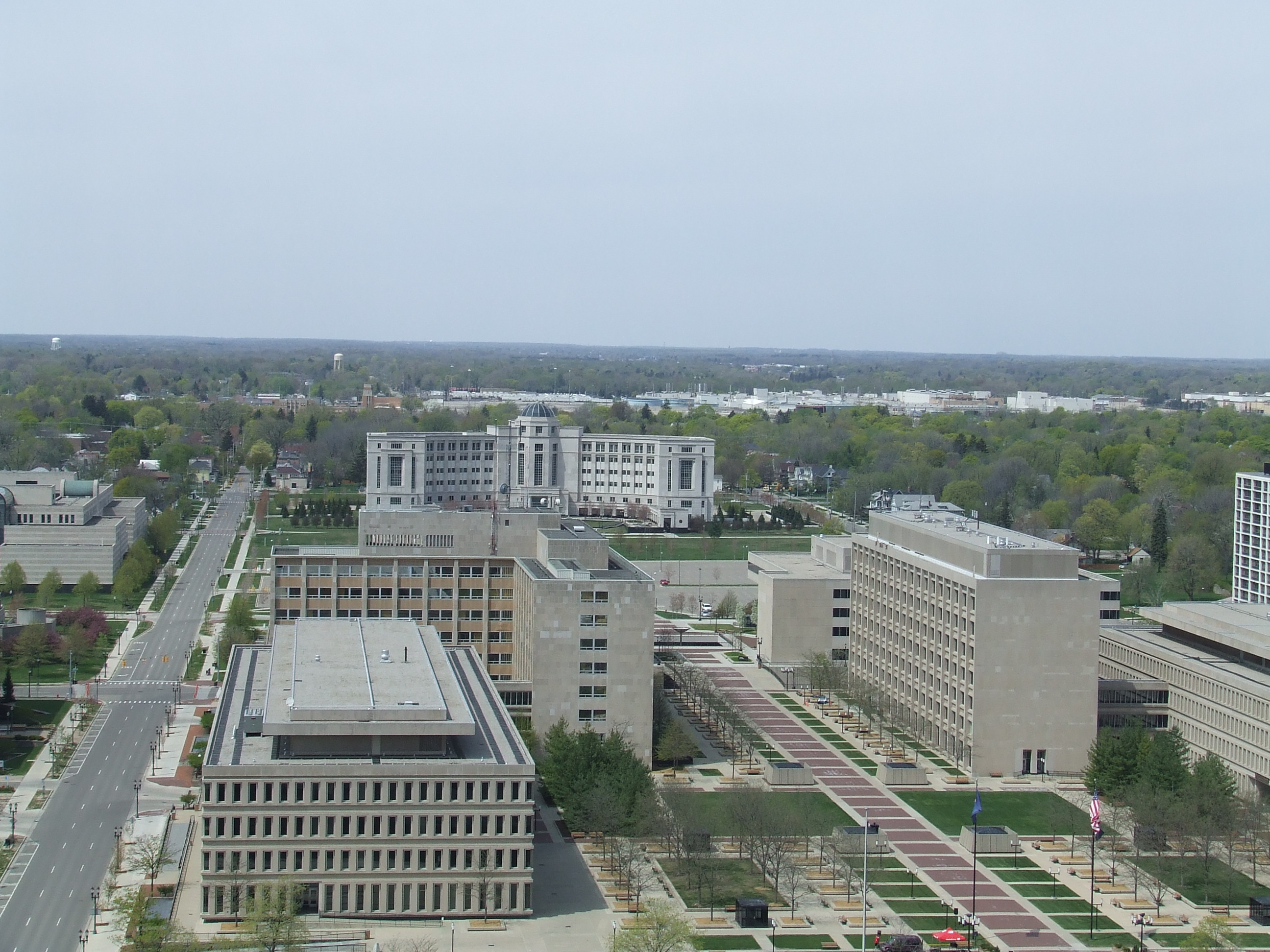 Michigan State Government between Allegan and Ottawa streets in Lansing.